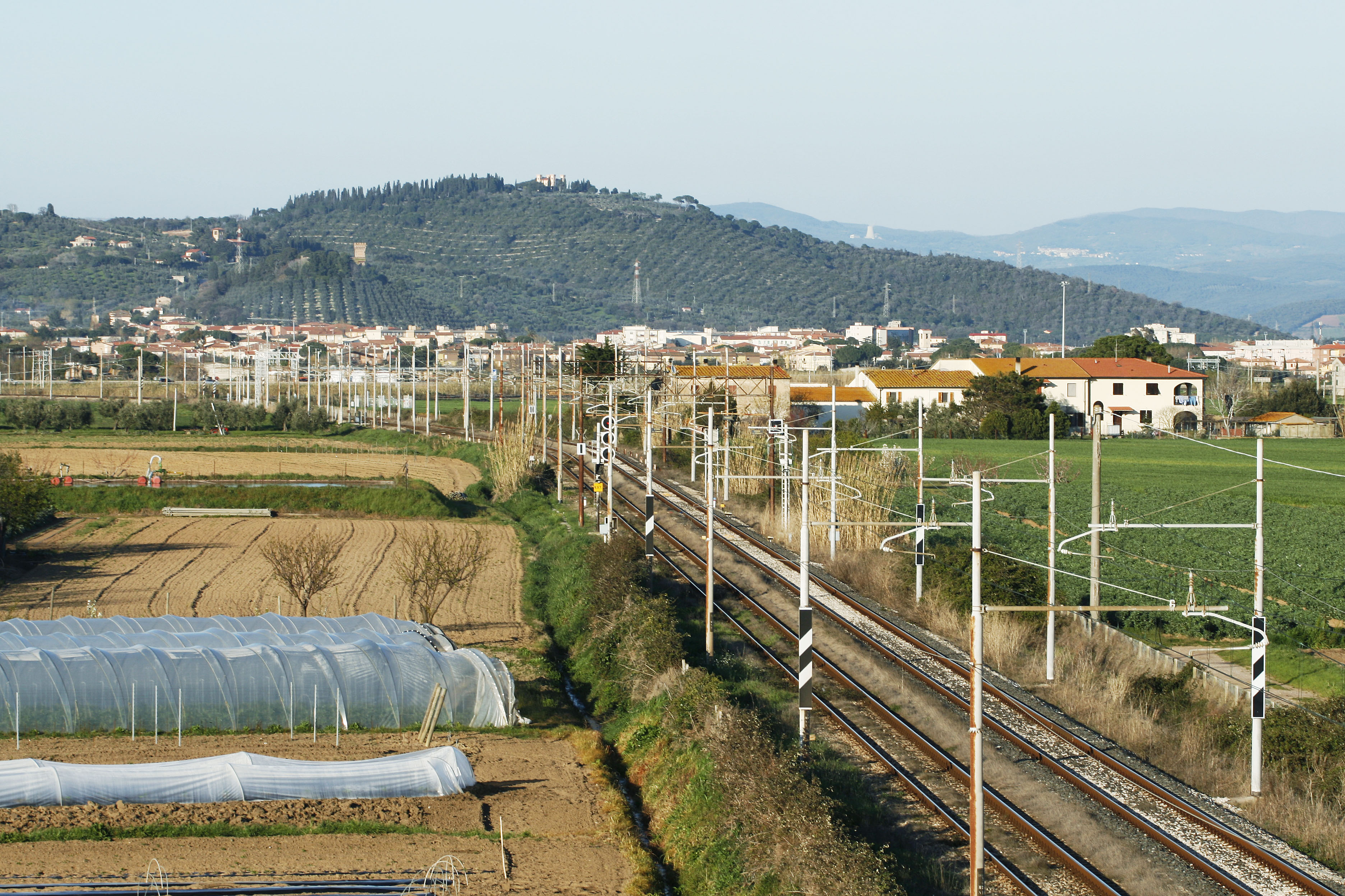 Campiglia Marittima - Piombino railway (Tuscany, Italy); the final end near Campiglia Marittima station and the link to tirrenic railway line (Pisa - Rome). In the background is visible the town of Venturina (LI)